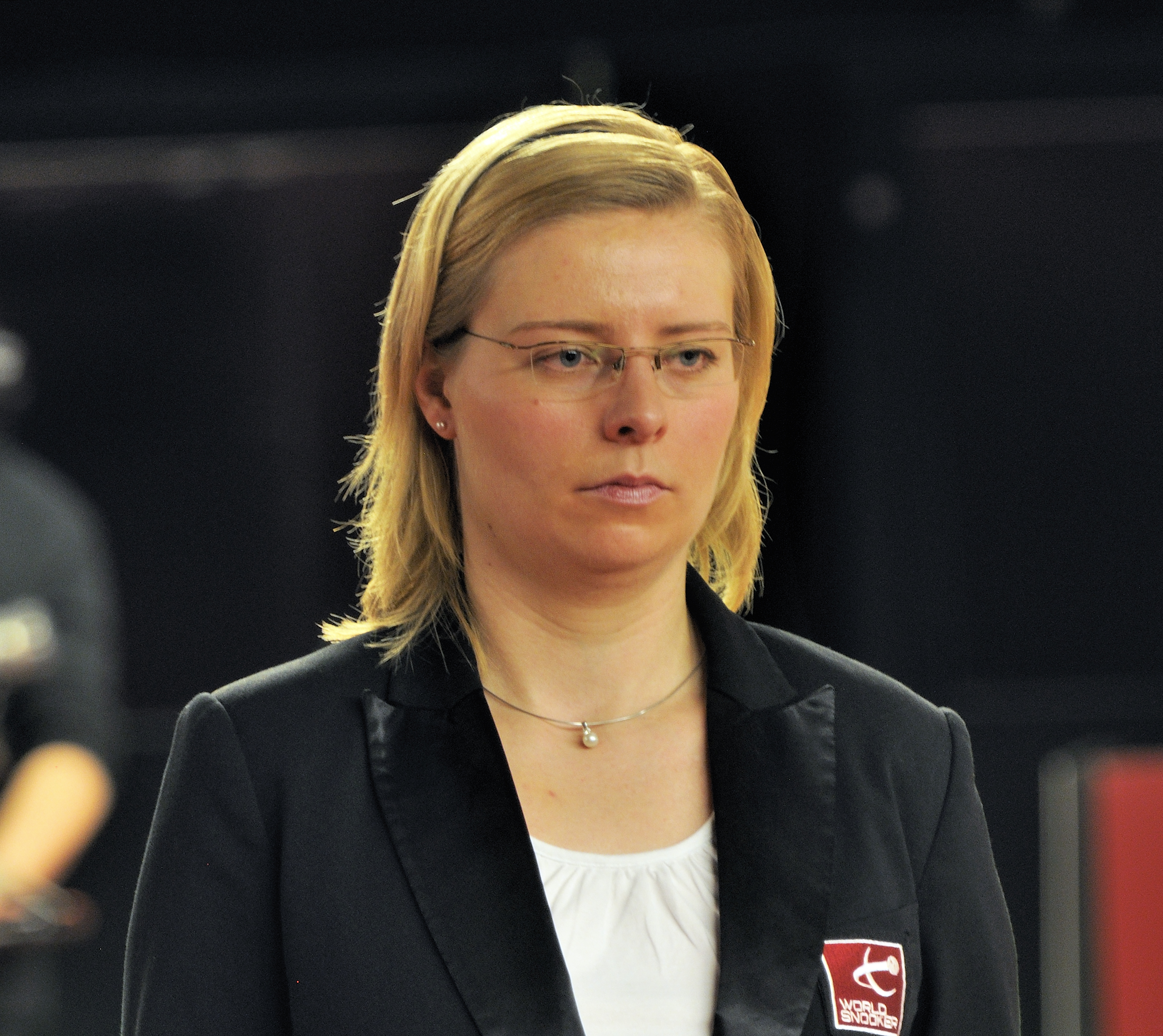 Picture taken in Berlin during the Snooker German Masters in 2014. Maike Kesseler.